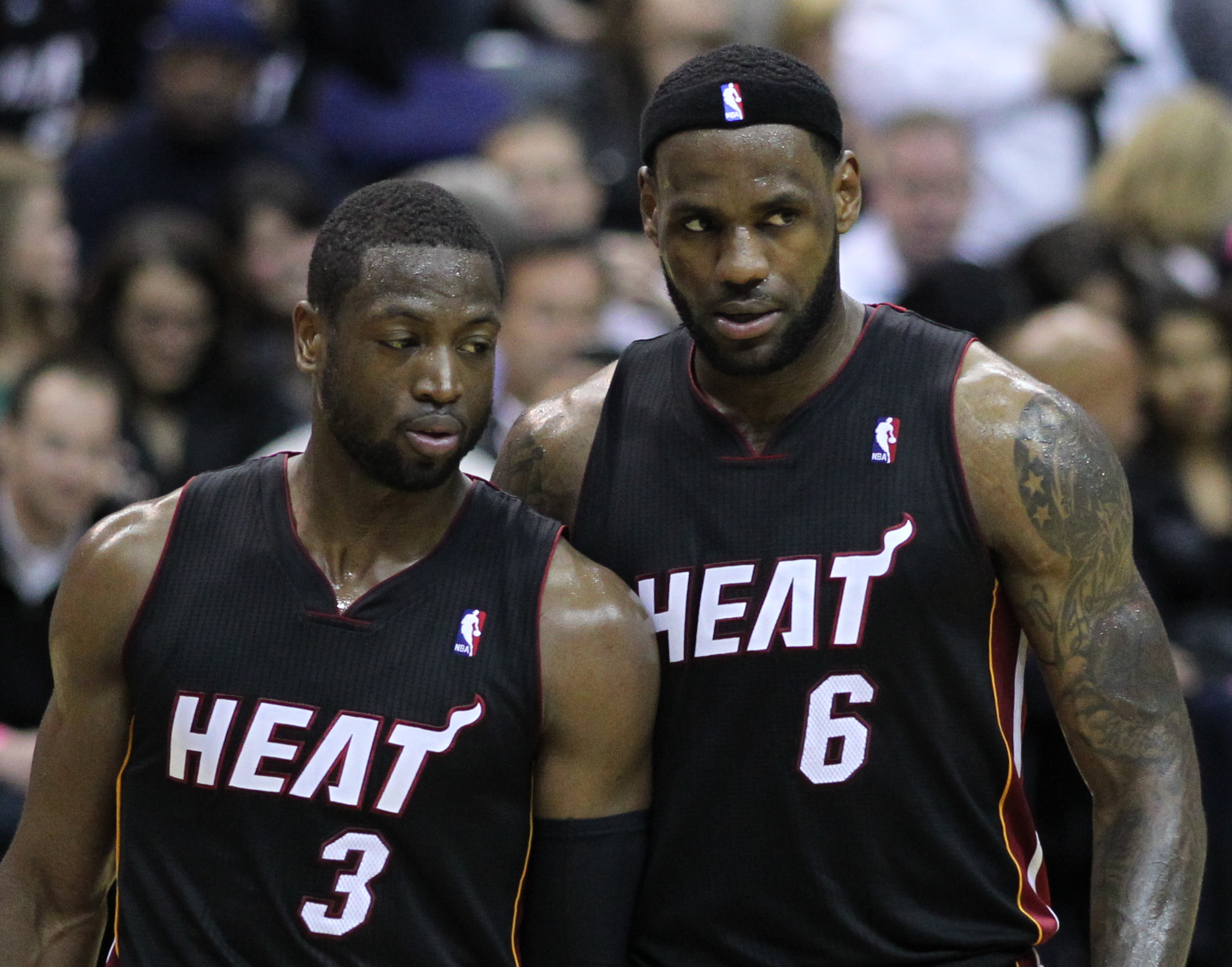 Wizards v/s Heat 03/30/11